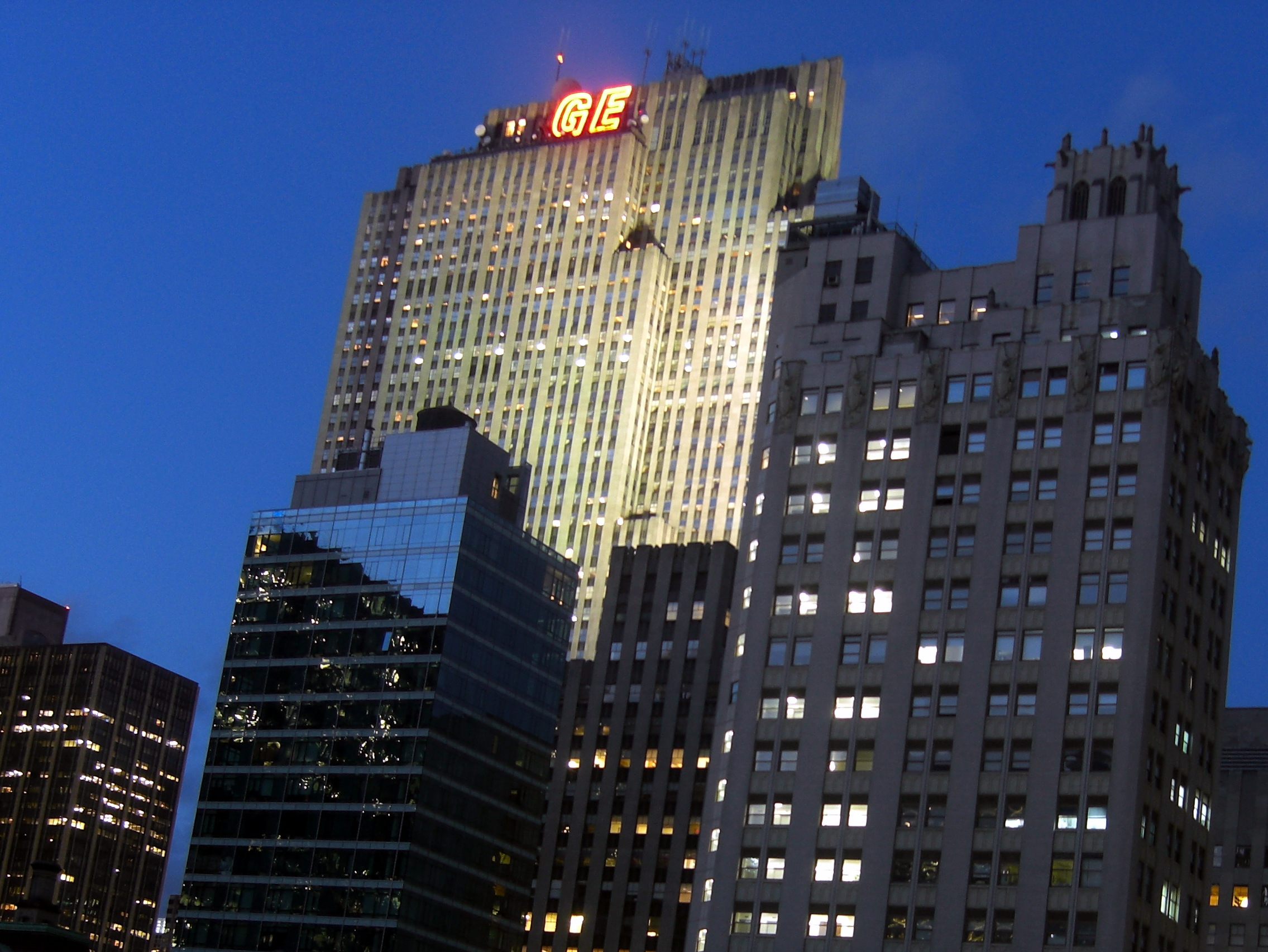 The GE building in Rockefeller Center as viewed from 555 5th Avenue.